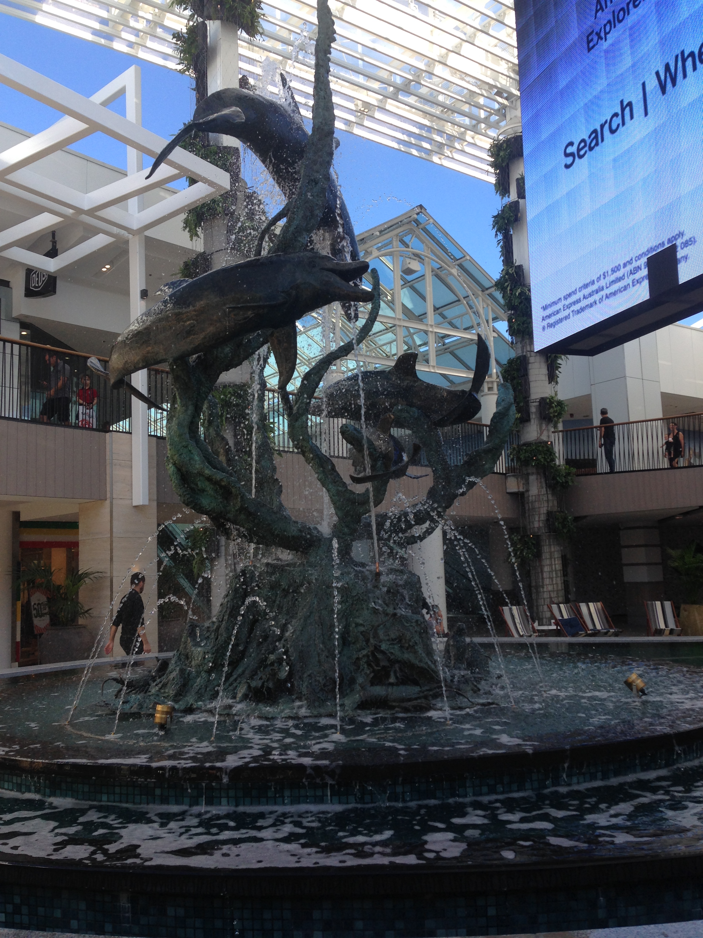 Photo of redeveloped dolphin fountain created by Victor Cusack in the centre court of Westfield Warringah Mall